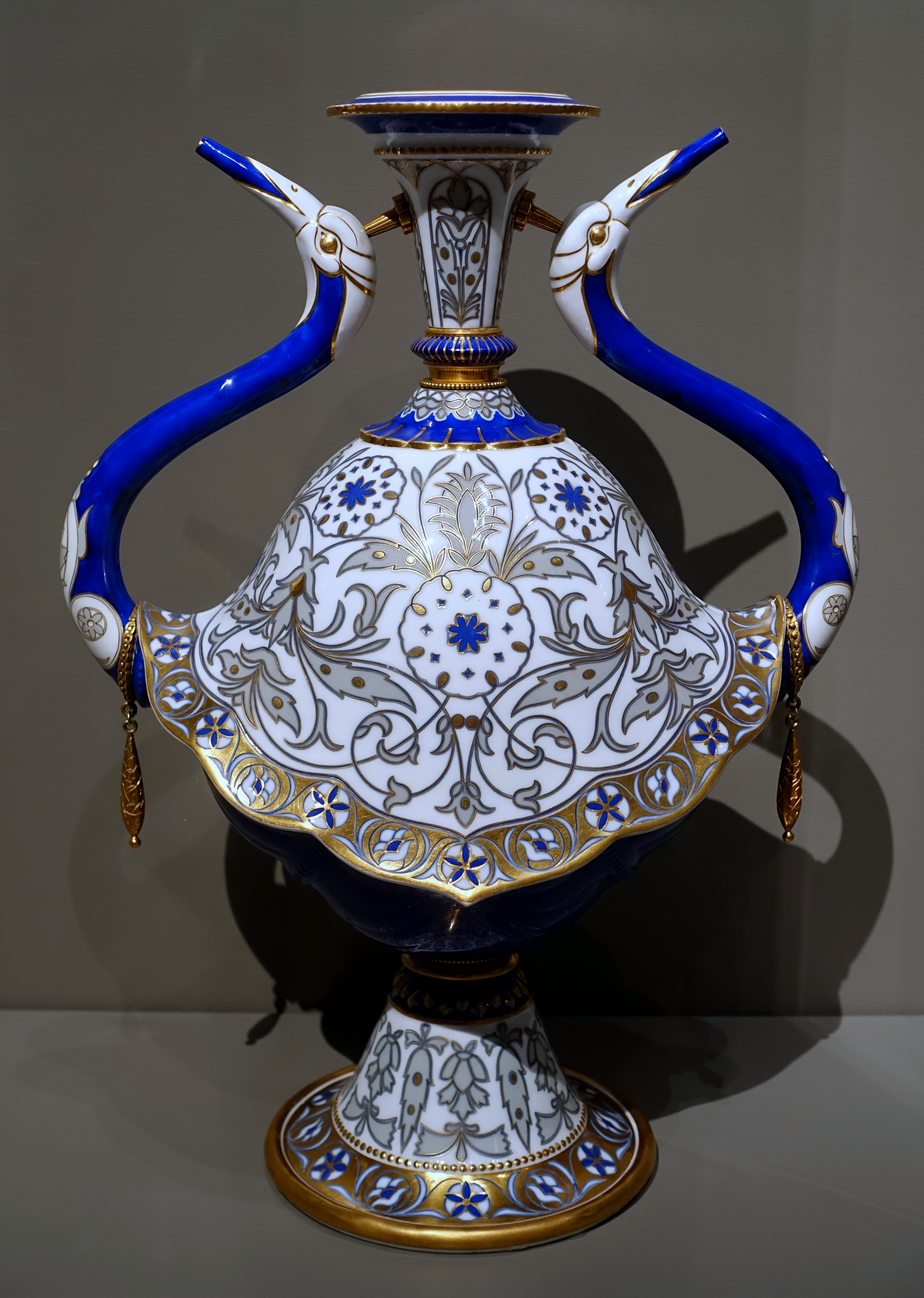 Exhibit in the Wadsworth Atheneum - Hartford, Connecticut, USA. This work is old enough so that it is in the public domain.